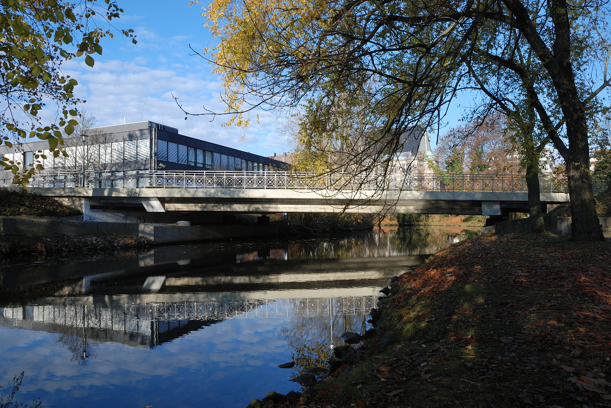 Konrad-Adenauer-bridge on Brunswick